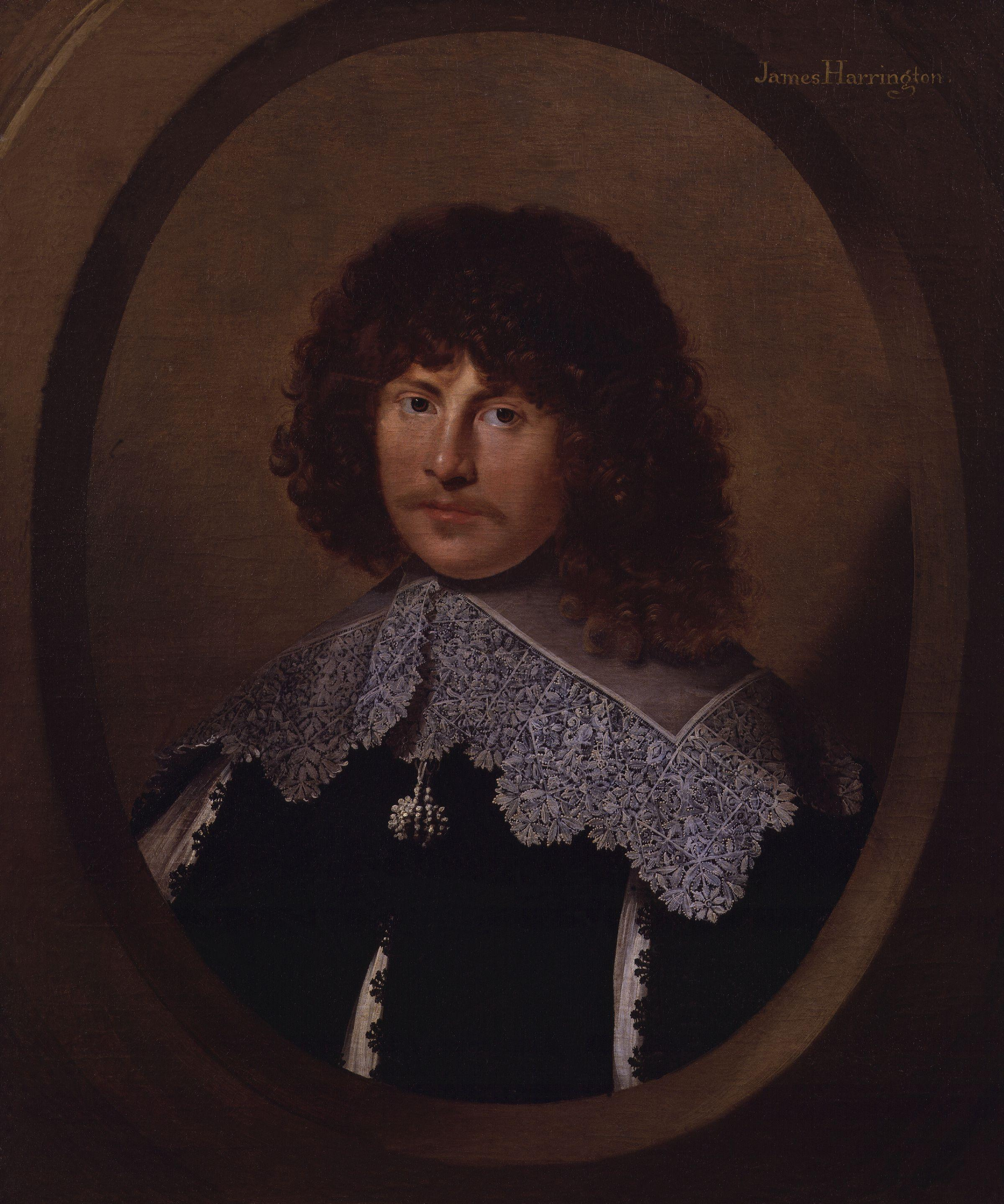 James Harrington, by unknown artist. All images in this batch are listed as "unknown author" by the NPG, who is diligent in researching authors, and was donated to the NPG before 1939 according to their website.